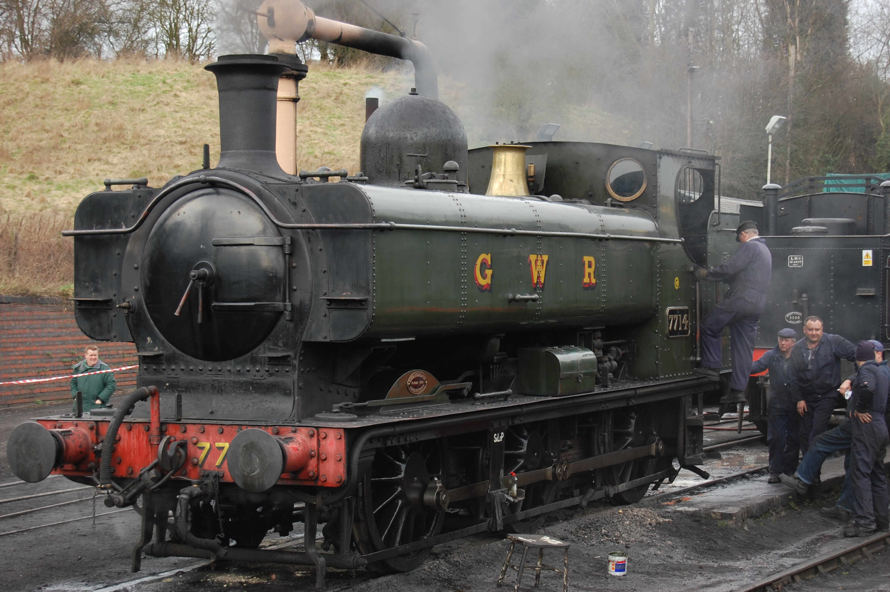 GWR 0-6-0PT 7714, at Bridgnorth on the Severn Valley Railway.